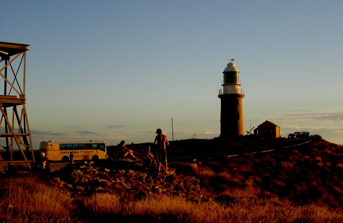 Description: Lighthouse Cape Range Nationalpark, Exmouth Australia Foto taken by Summi